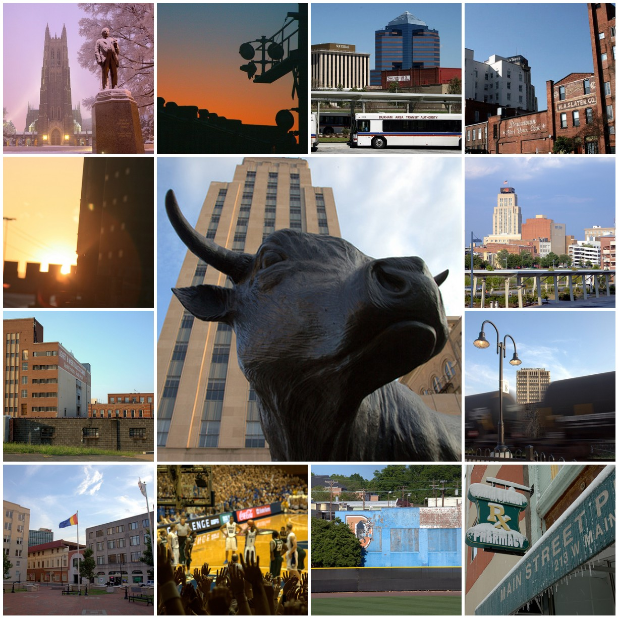 Photos of Durham. Clockwise starting in upper left. 1) Duke Chapel 2) Smith Tobacco Warehouse 3)DATA Bus. 4)Downtown *Find Your Cool*. 5)Downtown Durham behind Durham Transportation Center. 6)NC Mutual Life Building from the Durham Train Station. 7)Main Street Pharmacy, downtown Durham. 8)old Durham Athletic Park 9)Duke Blue Devils basketball game at historic Cameron Indoor Stadium. 10)CCB Plaza in the city center 11)Chesterfield Building 12)Warehouse District 13 -center) Bull Statue below the Hill Building (SunTrust Tower).